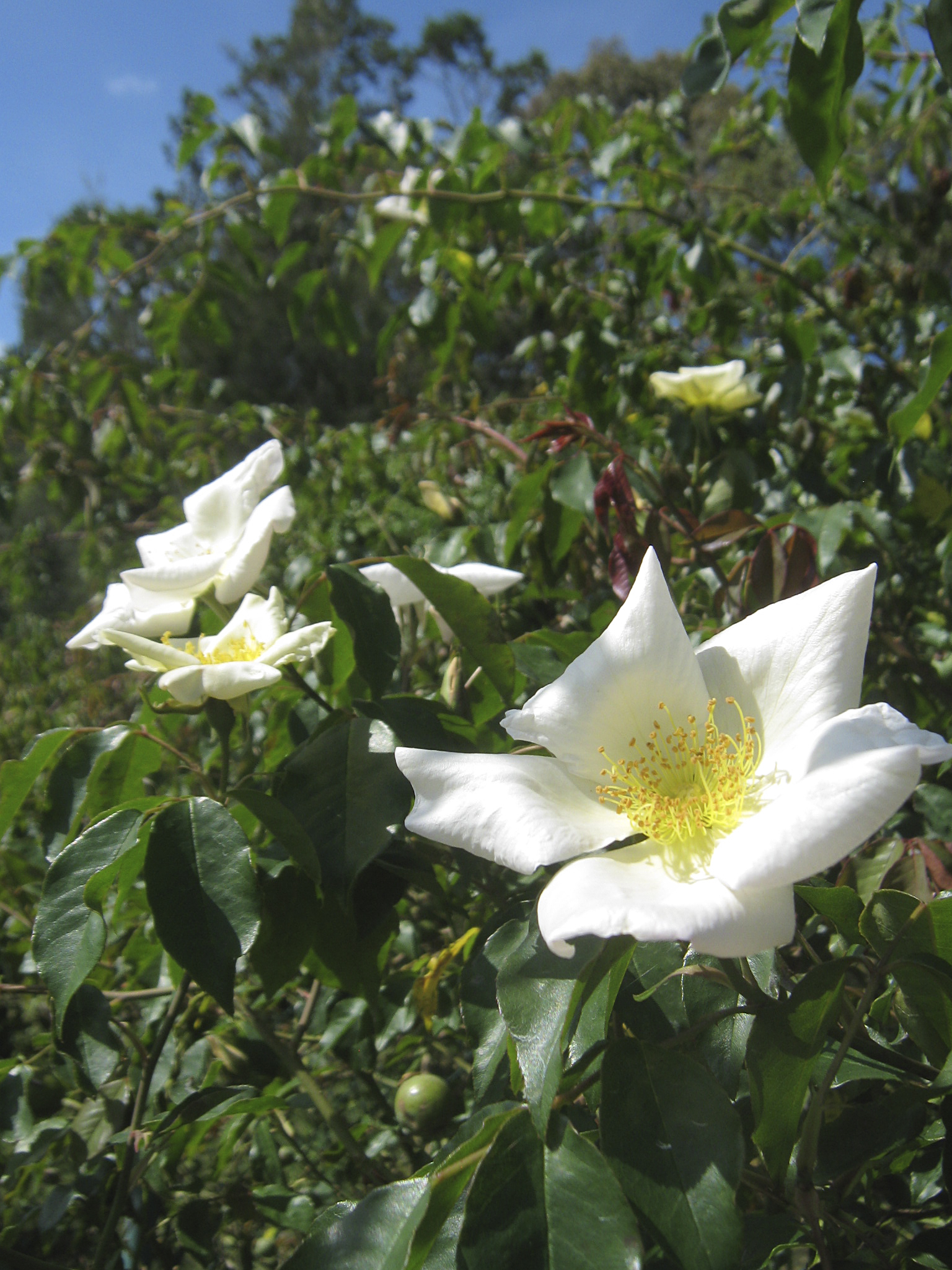 Rose 'Mrs Richard Turnbull', Hybrid Gigantea by Alister Clark 1945; photographed in the Victoria State Rose Garden, Werribee Park, Victoria